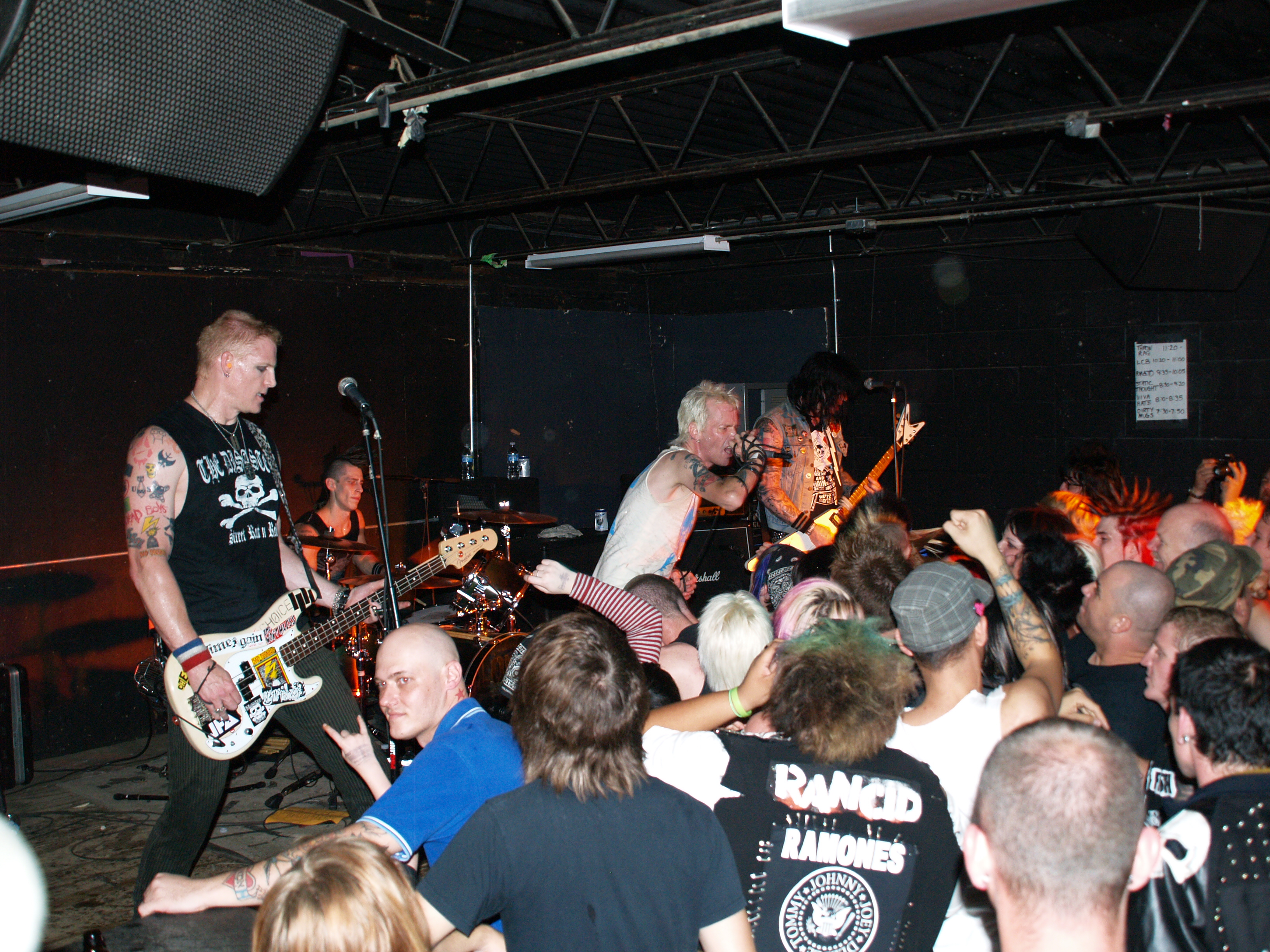 Lower Class Brats in the Dirty Devil Race to Hell Tour 2008.